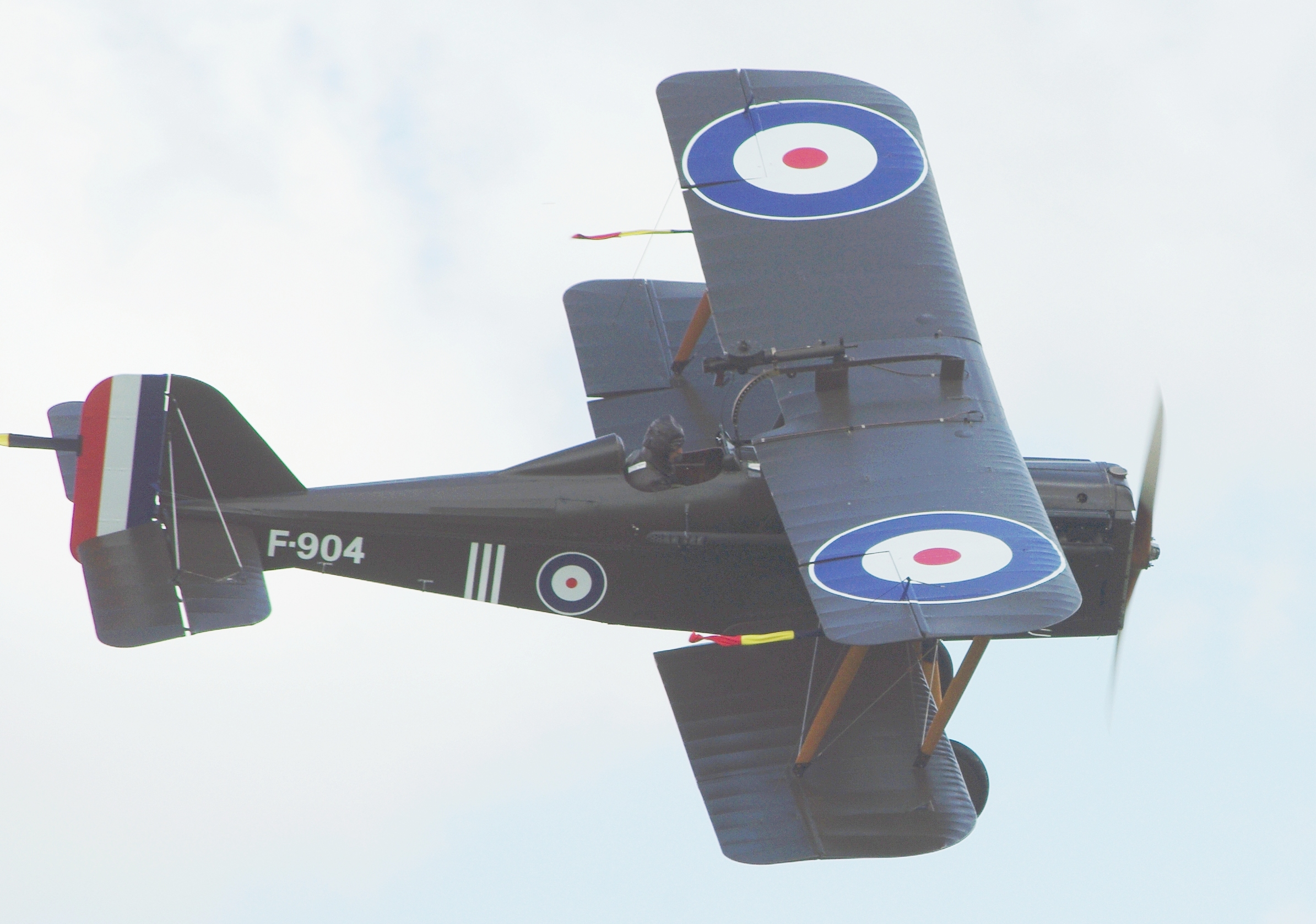 The Shuttleworth Trust's SE5A at Old Warden's Summer Show 2009